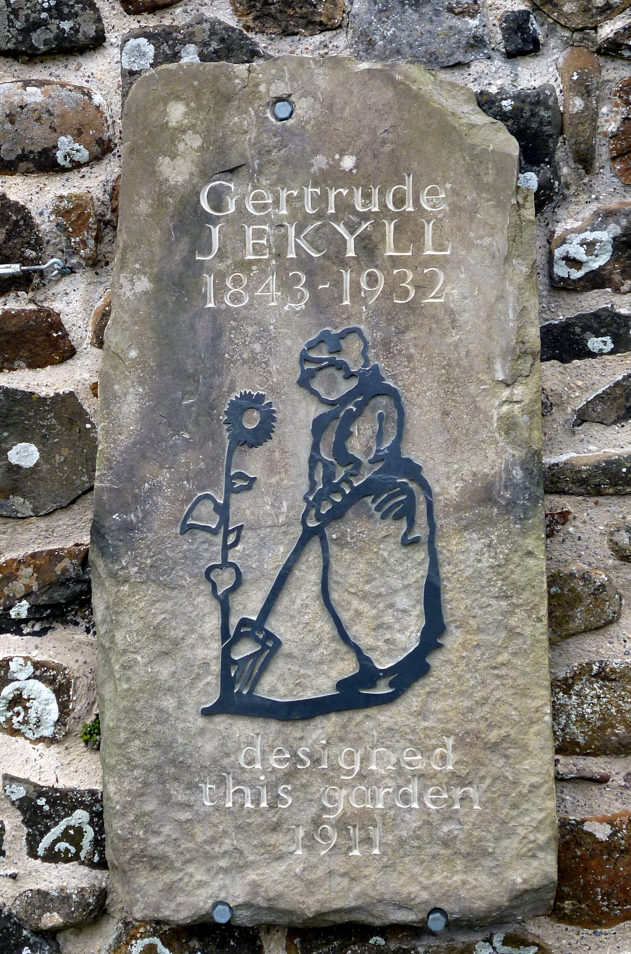 Garden close to the castle on Lindisfarne